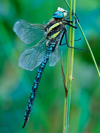 Aeshna serrata, male